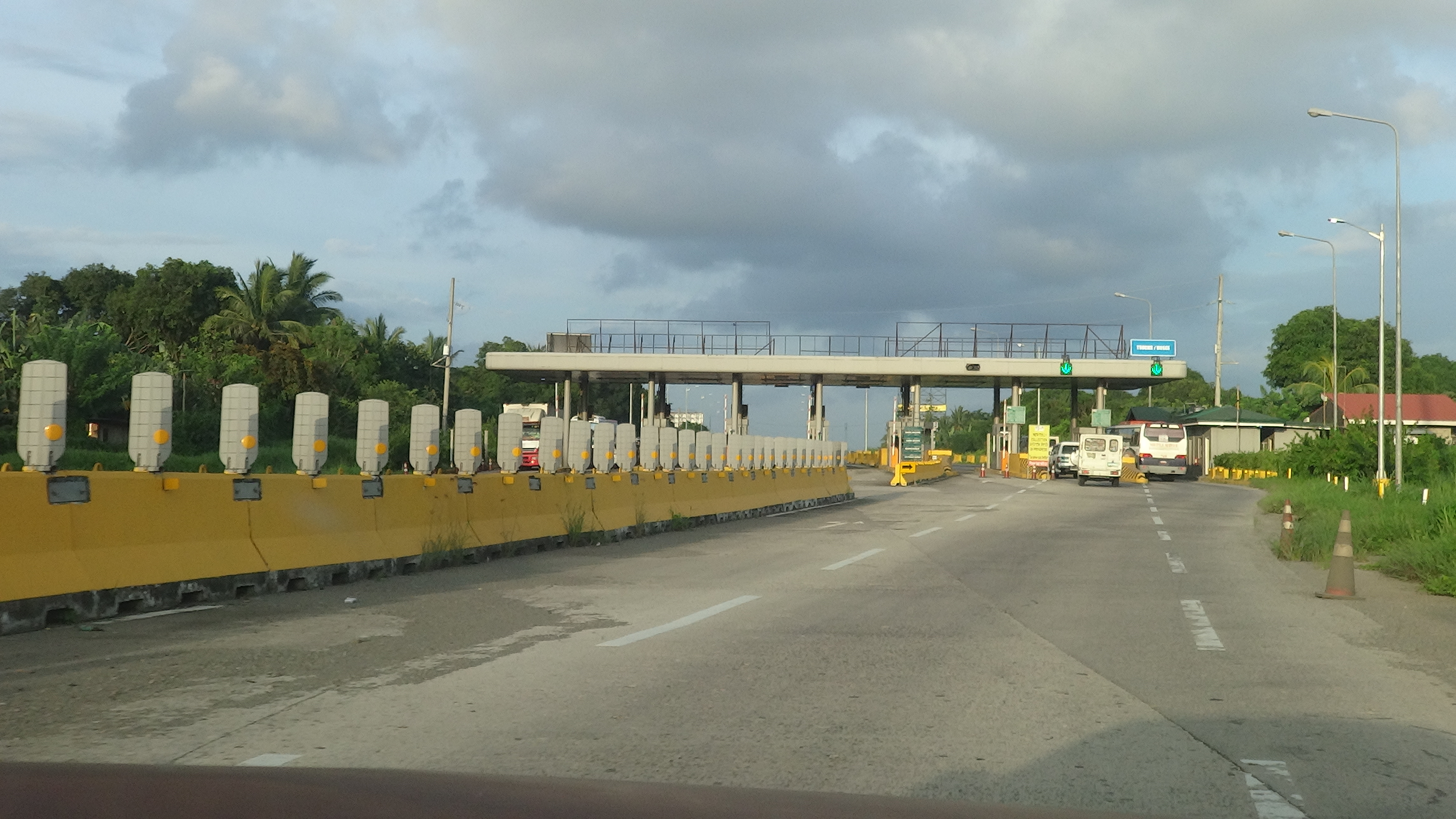 Star Tollway Batangas Toll Plaza in Batangas City